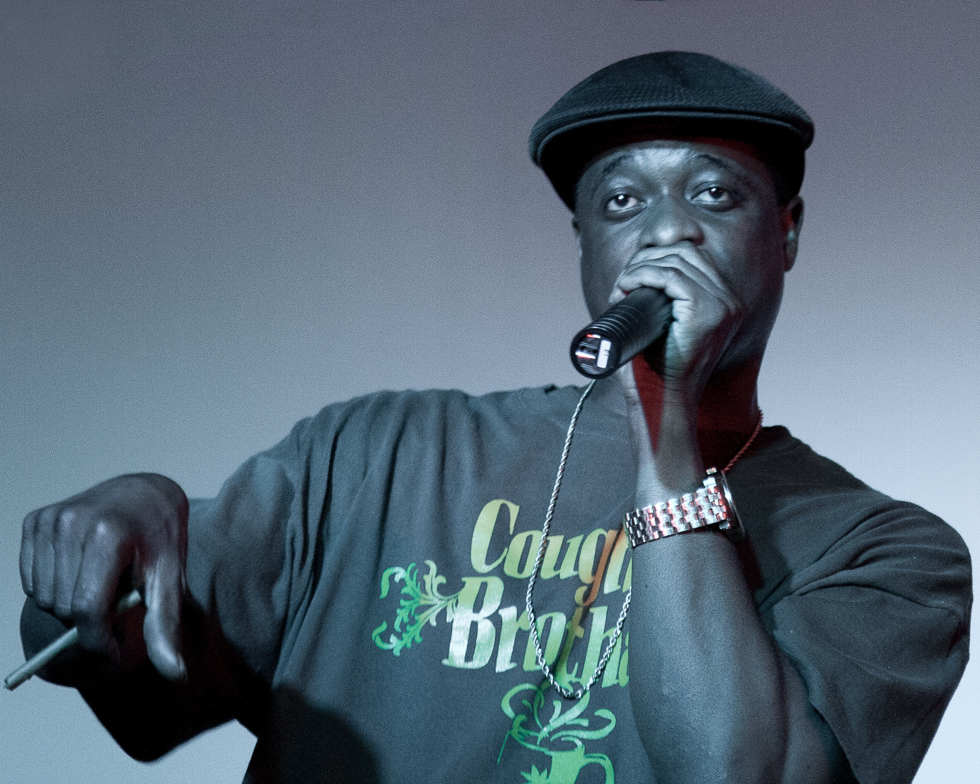 Devin the Dude performing live at Badfish Bar and Grill in Pearland.